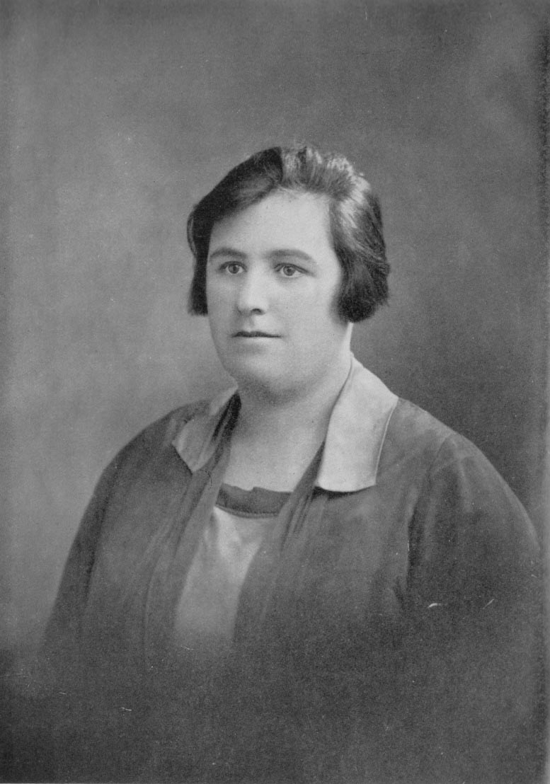 Portrait of the medium Helen Duncan.